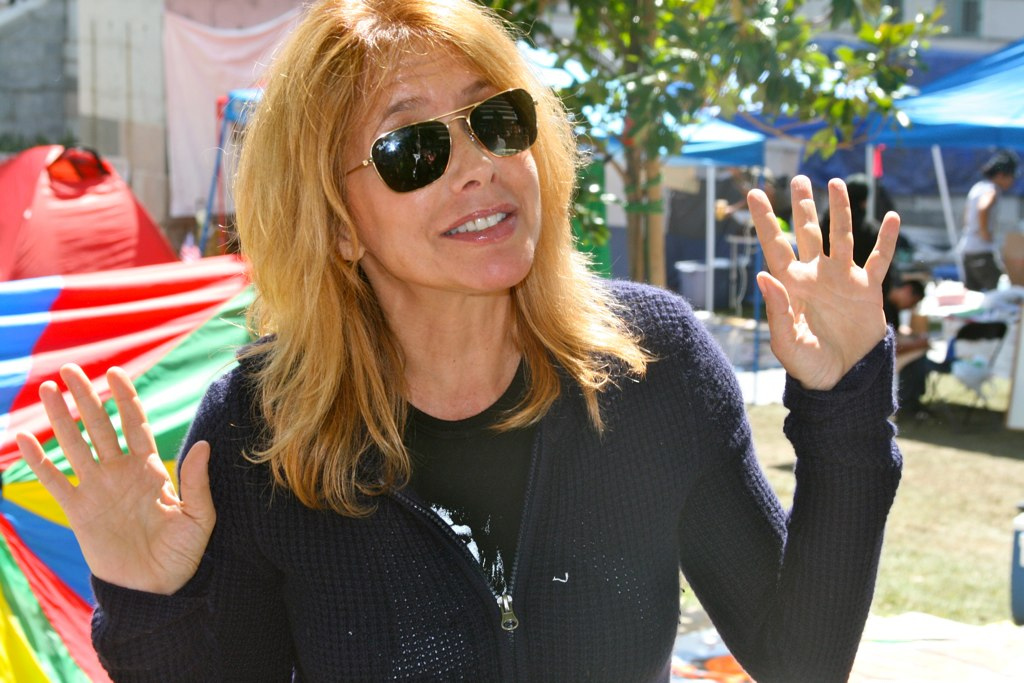 Occupy Los Angeles Oct 6, 2011